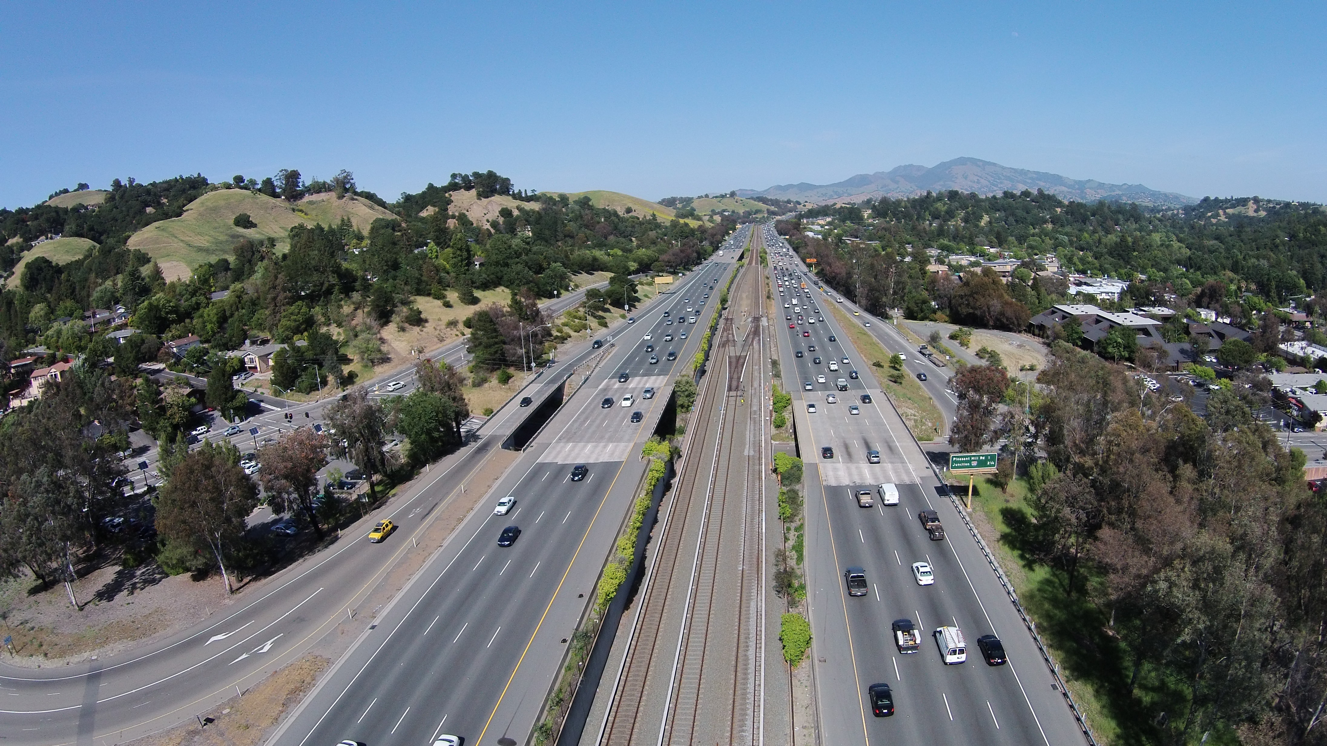 SR 24 near Lafayette with BART track and Mt Diablo in the background